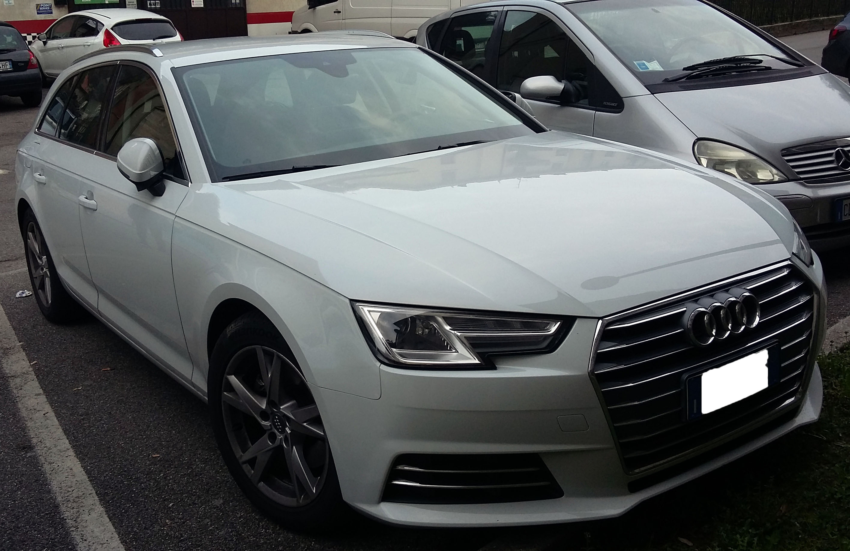 2015-present Audi A4 Avant, front